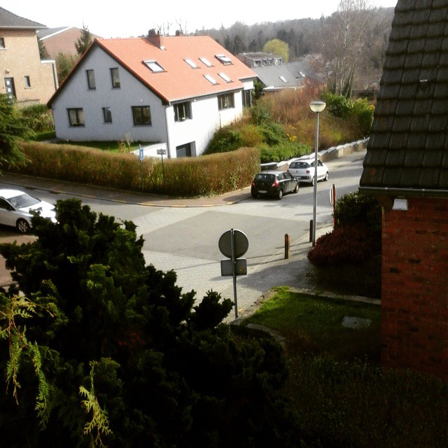 LInkebeek, Belgium